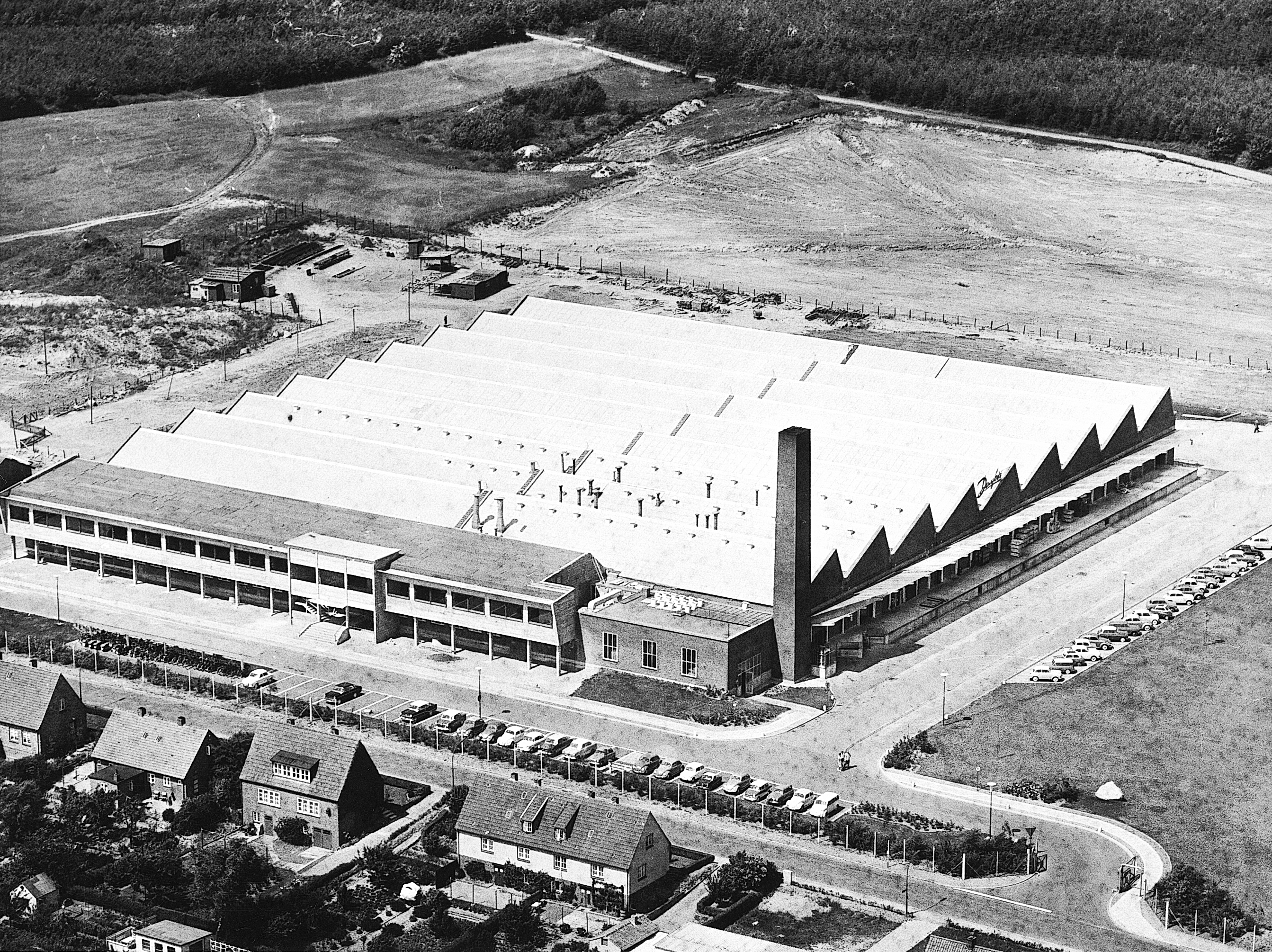 Aerial view of Factory 1 of the Danfoss Compressors plant in Flensburg